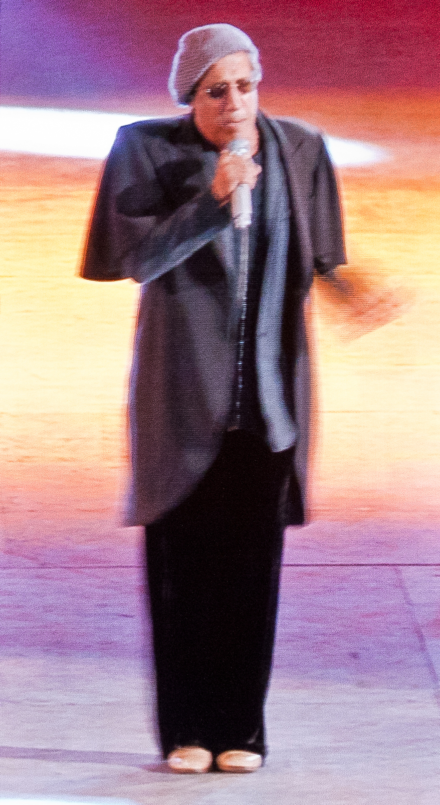 Live_in_Verona